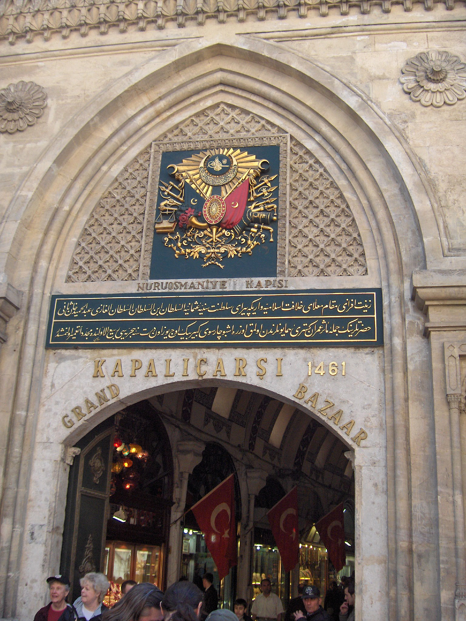 Gate of the Grand Bazaar, Istanbul, Turkey